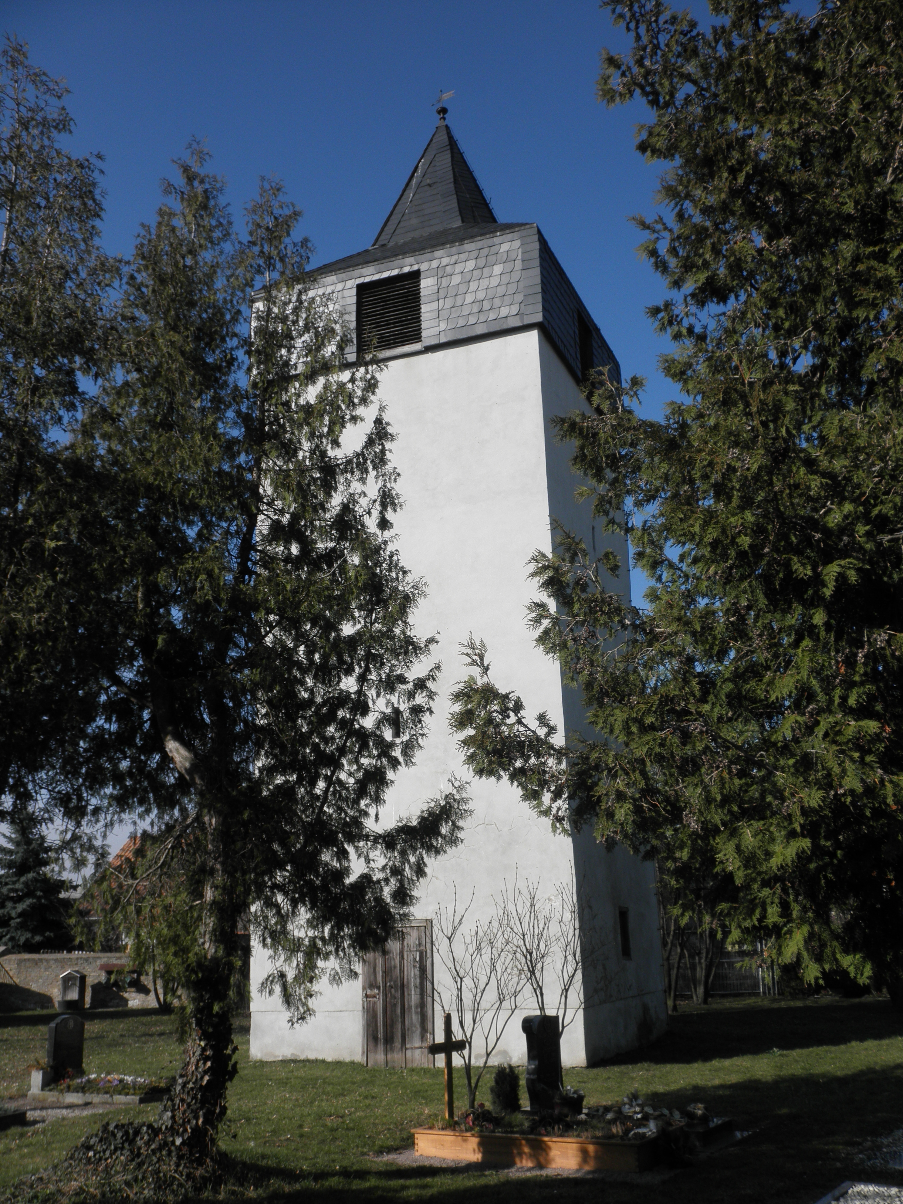 Church steeple in Orlishausen (Sömmerda) in Thuringia